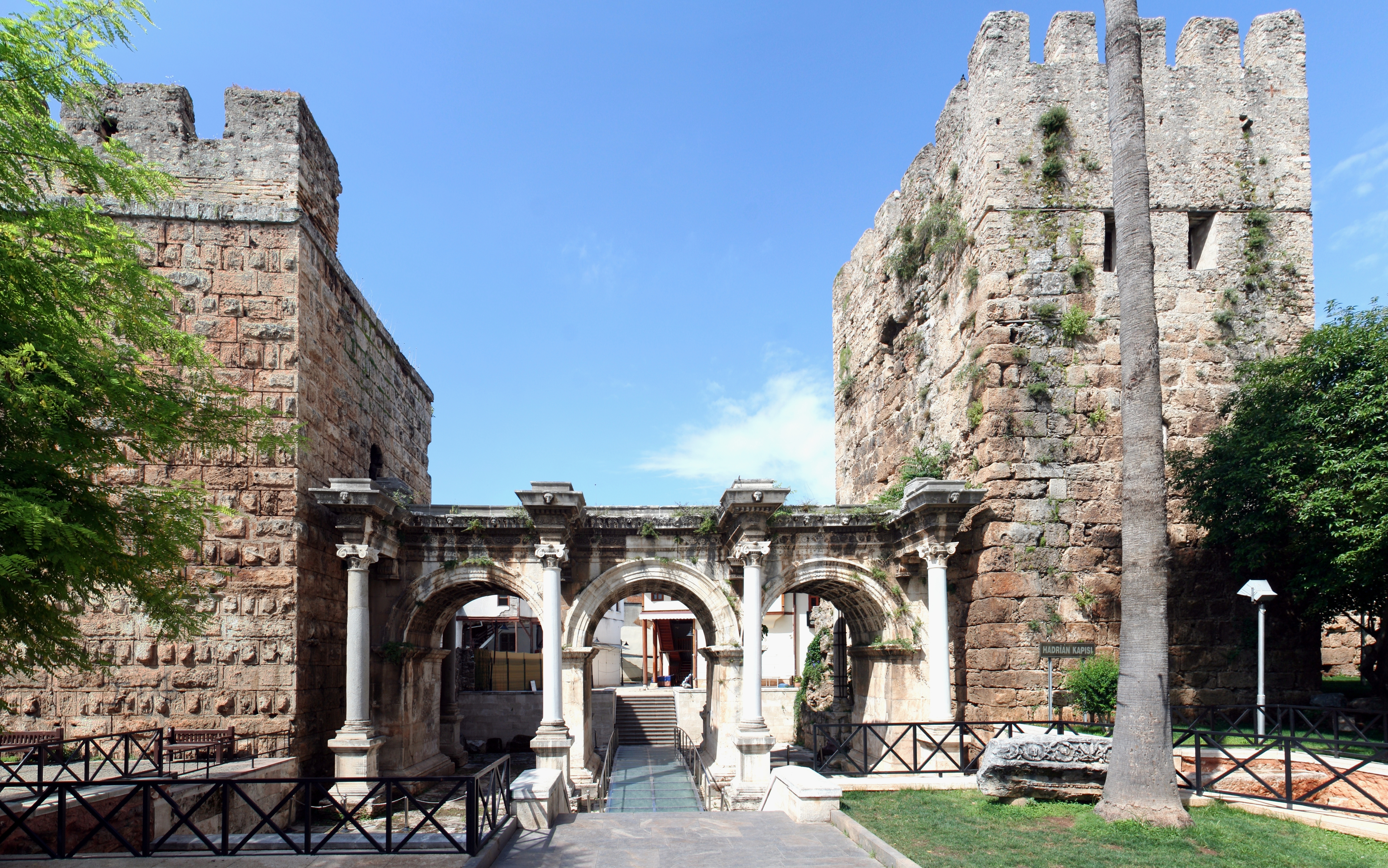 Hadrian's Gate in Antalya